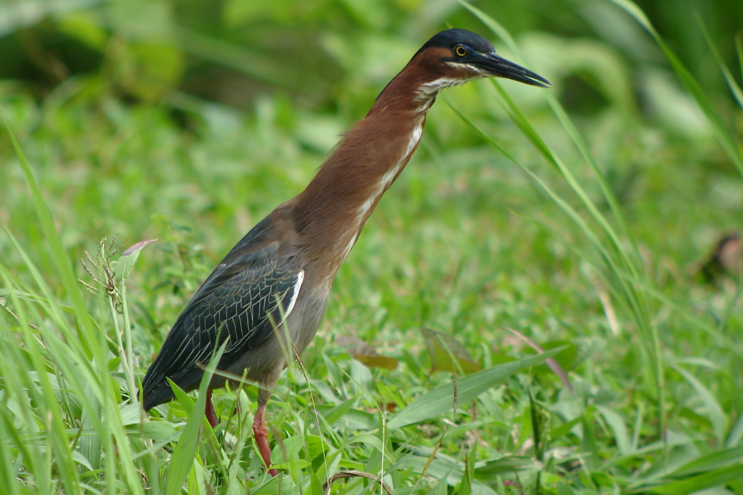 Green Heron (Butorides virescens) - Photographed at Pointe Noire, Guadeloupe